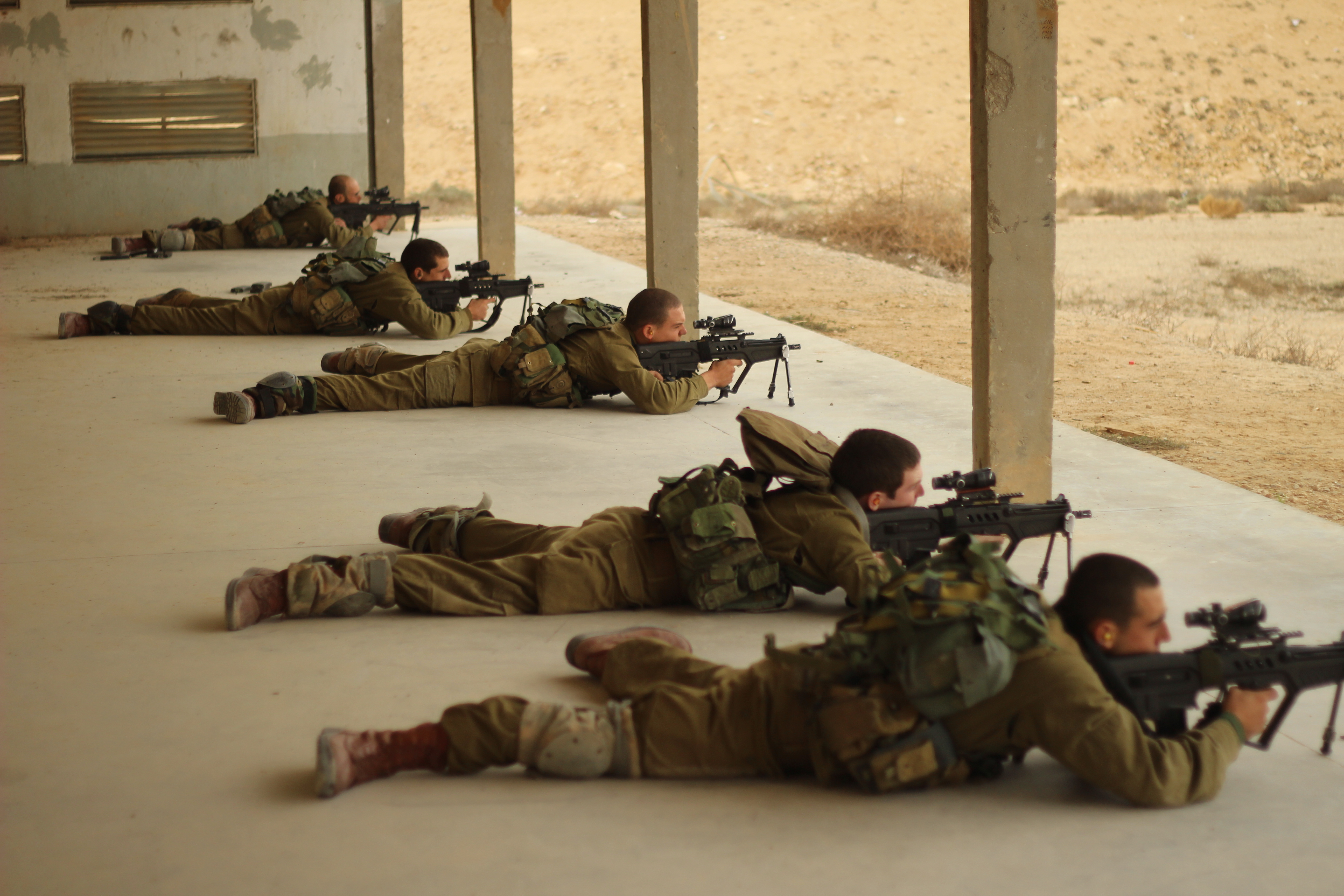 December 4, 2012 Nahal's Special Forces conducted a firing drill in southern Israel with a range of different weapons. The firing course was part of their advanced training where they learn to specialize in a certain firearm. Photo by Zev Marmorstein, IDF Spokesperson's Unit For more from the IDF